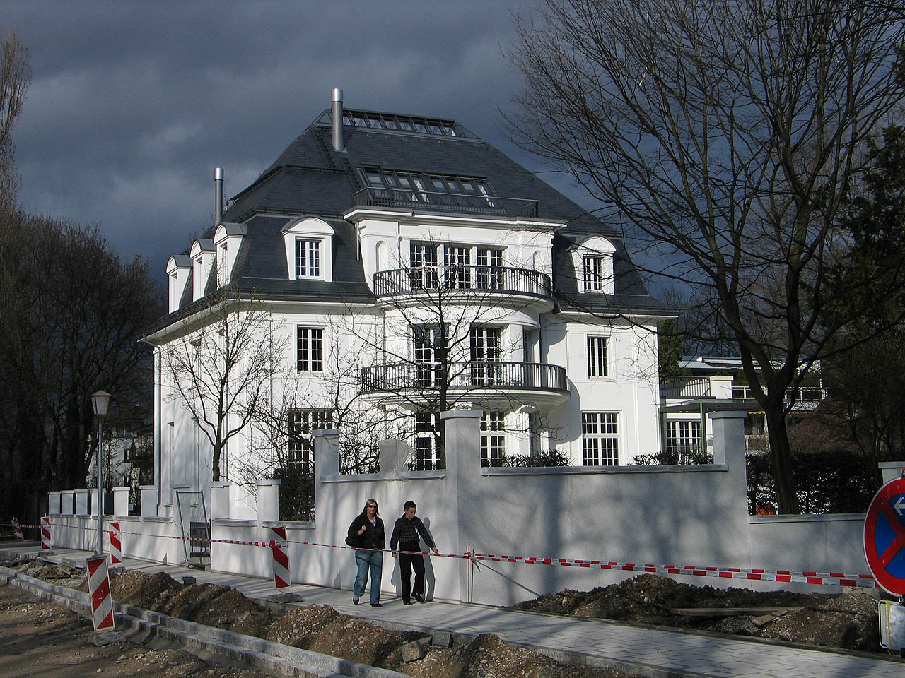 Reconstruction of the former villa of Thomas Mann, Herzogpark, Munich